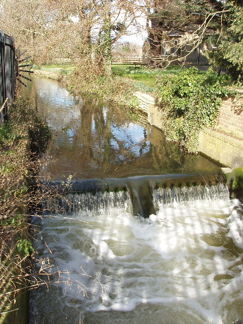 Weir on River Colne, Stanwell Moor. View north from footbridge - with shadow of its railings on the foam. Weir by Moor Stud Farm.